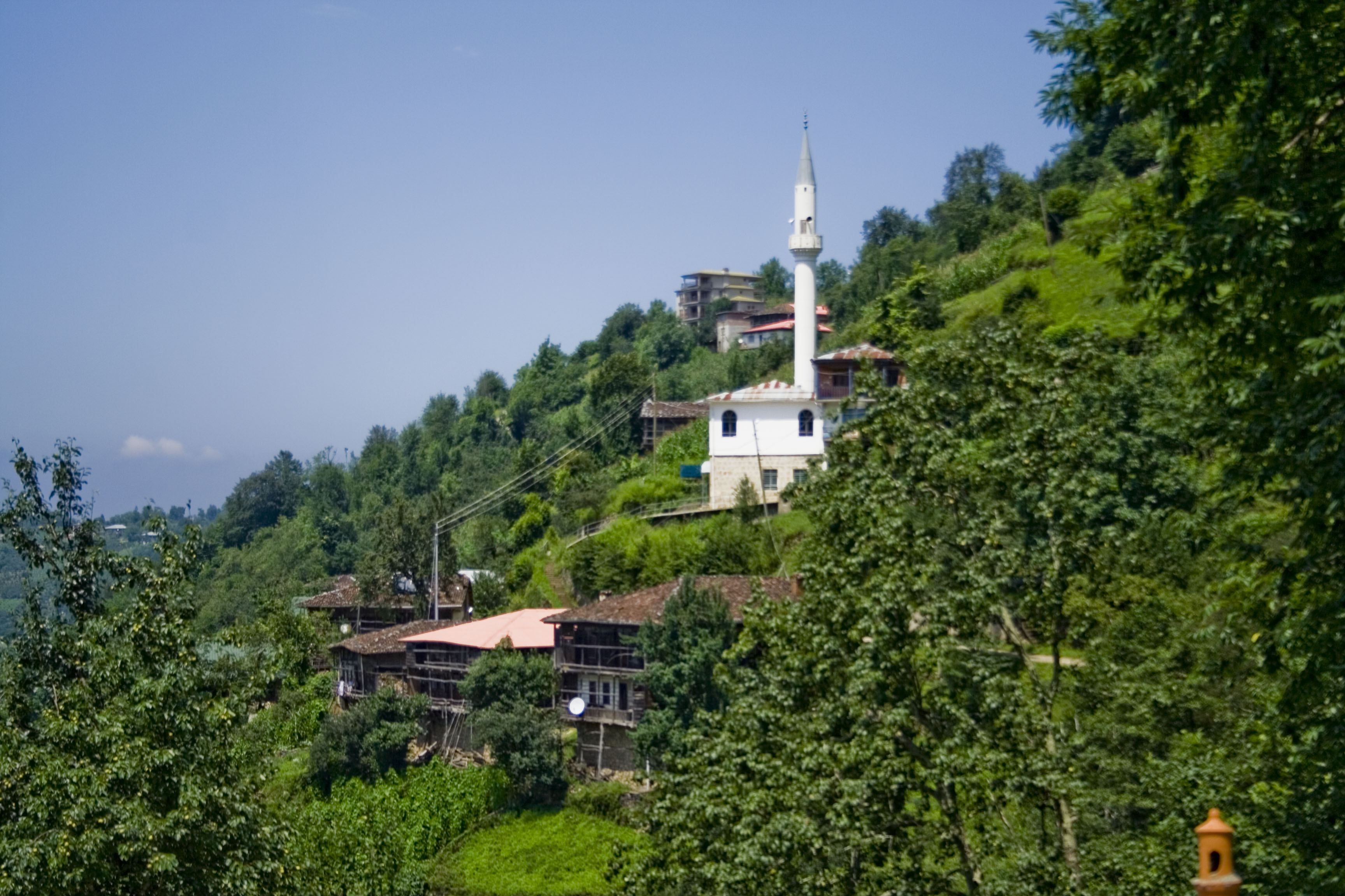 This is a village in the Çaykara district of Trabzon province, Turkey